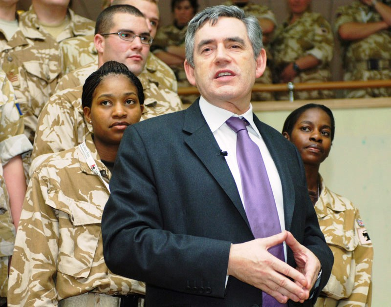 Prime Minister Gordon Brown meets British troops during a recent visit to Basra.